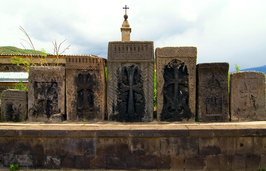 Kachqars of Vanadzor, Armenia